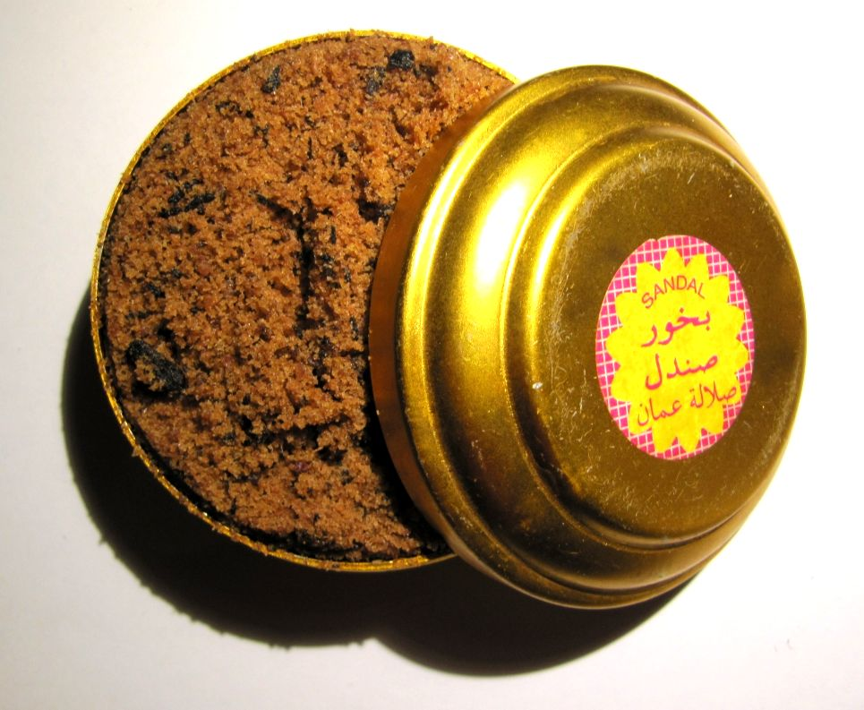 ground sandalwood (lignum santalinum, origin: Oman, 2009)